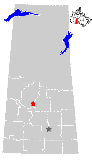 Red star indicates the location of Saskatoon, Saskatchewan; whereas the grey star indicates the location of the provincial capital, Regina.